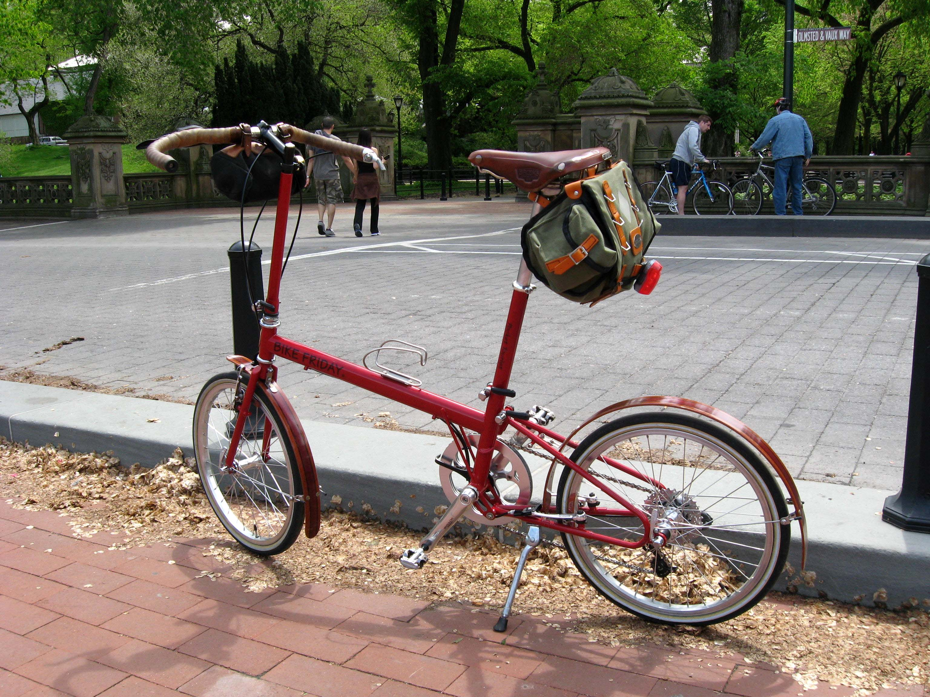 Looking southeast on a cloudy spring midday in upper Bethesda Terrace at a red Bike Friday with customized handlebars and mudguards.